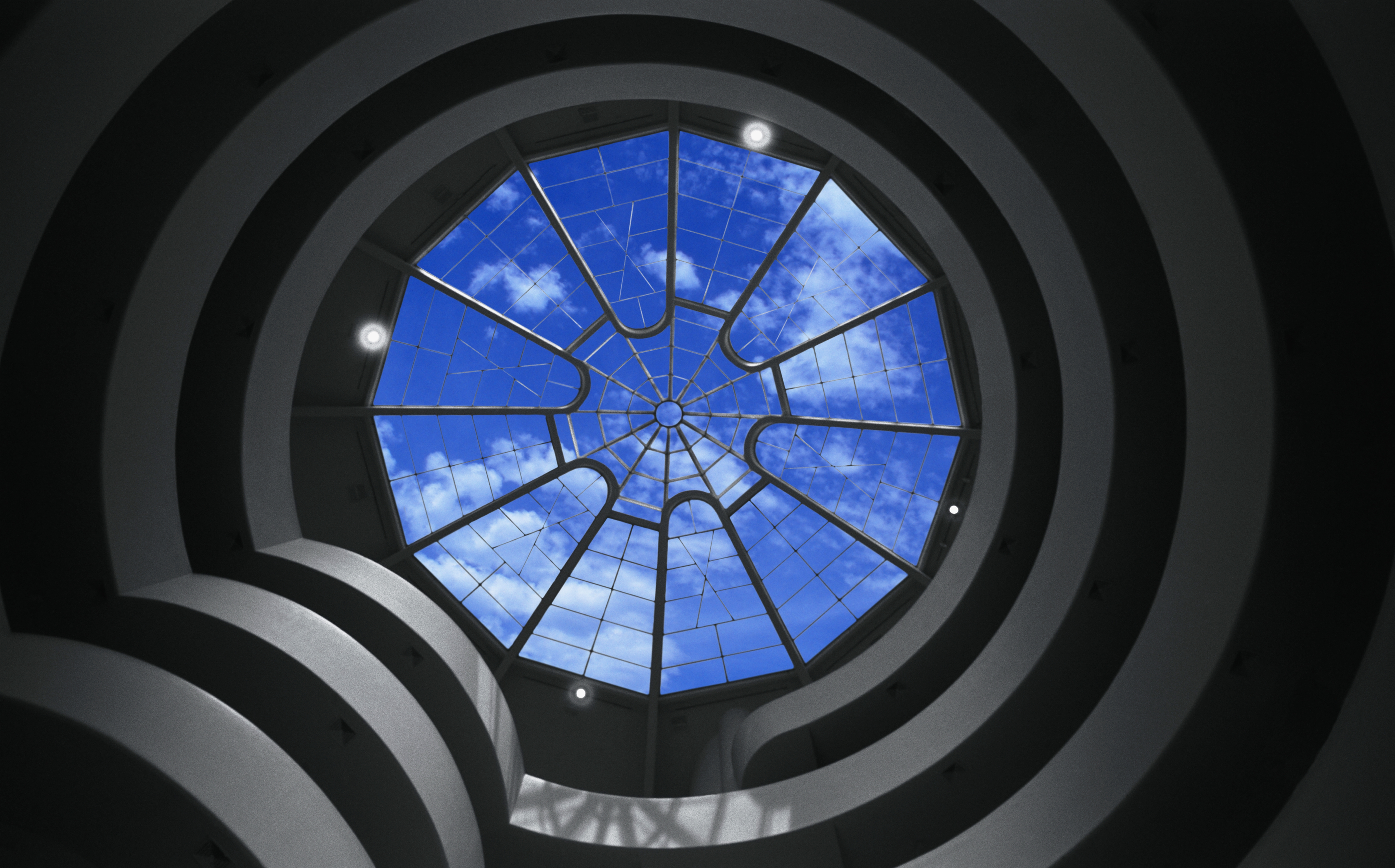 A Solomon R. Guggenheim Museum abstract